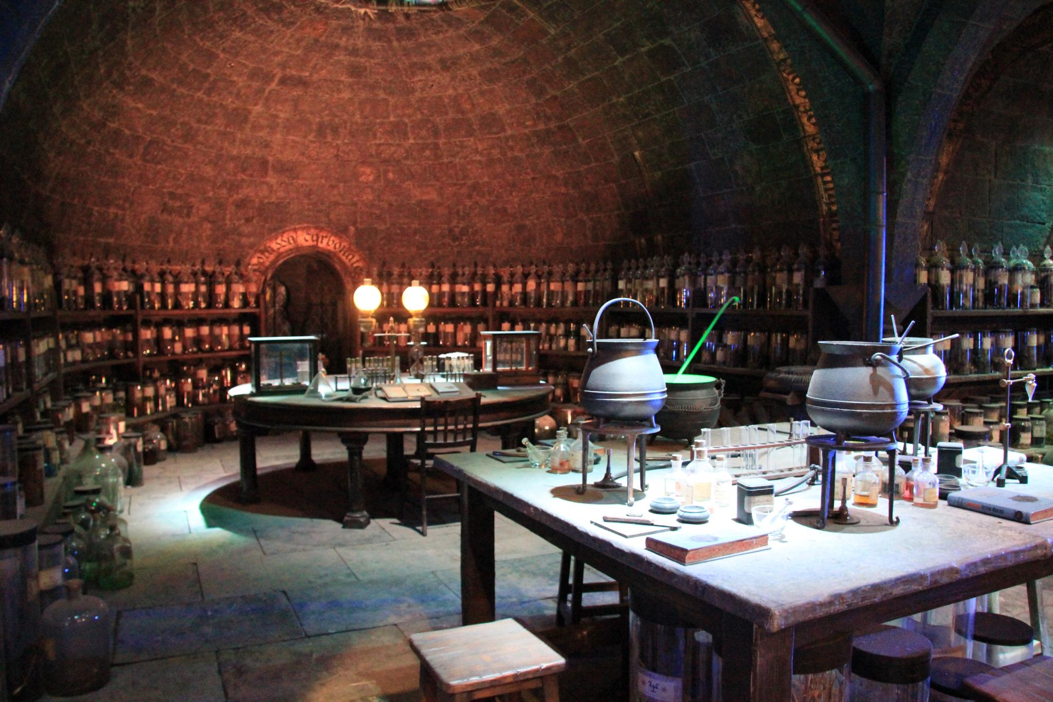 Warner Bros. Studio Tour London: The Making of Harry Potter.